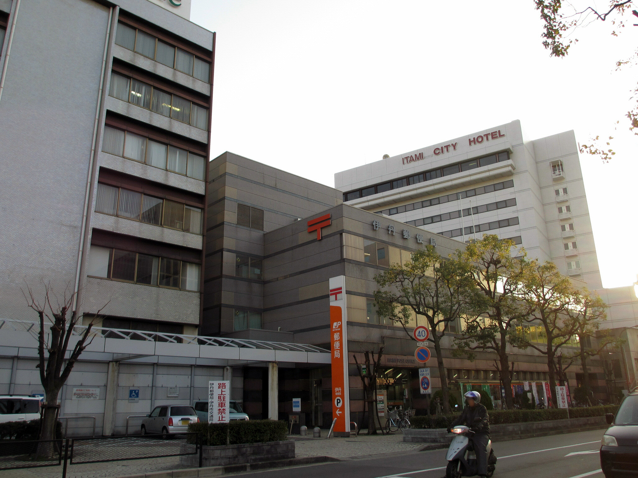 Itami Post Office